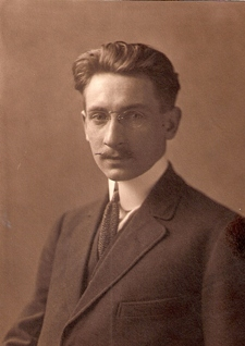 photo of Leopold Seyffert as a young man